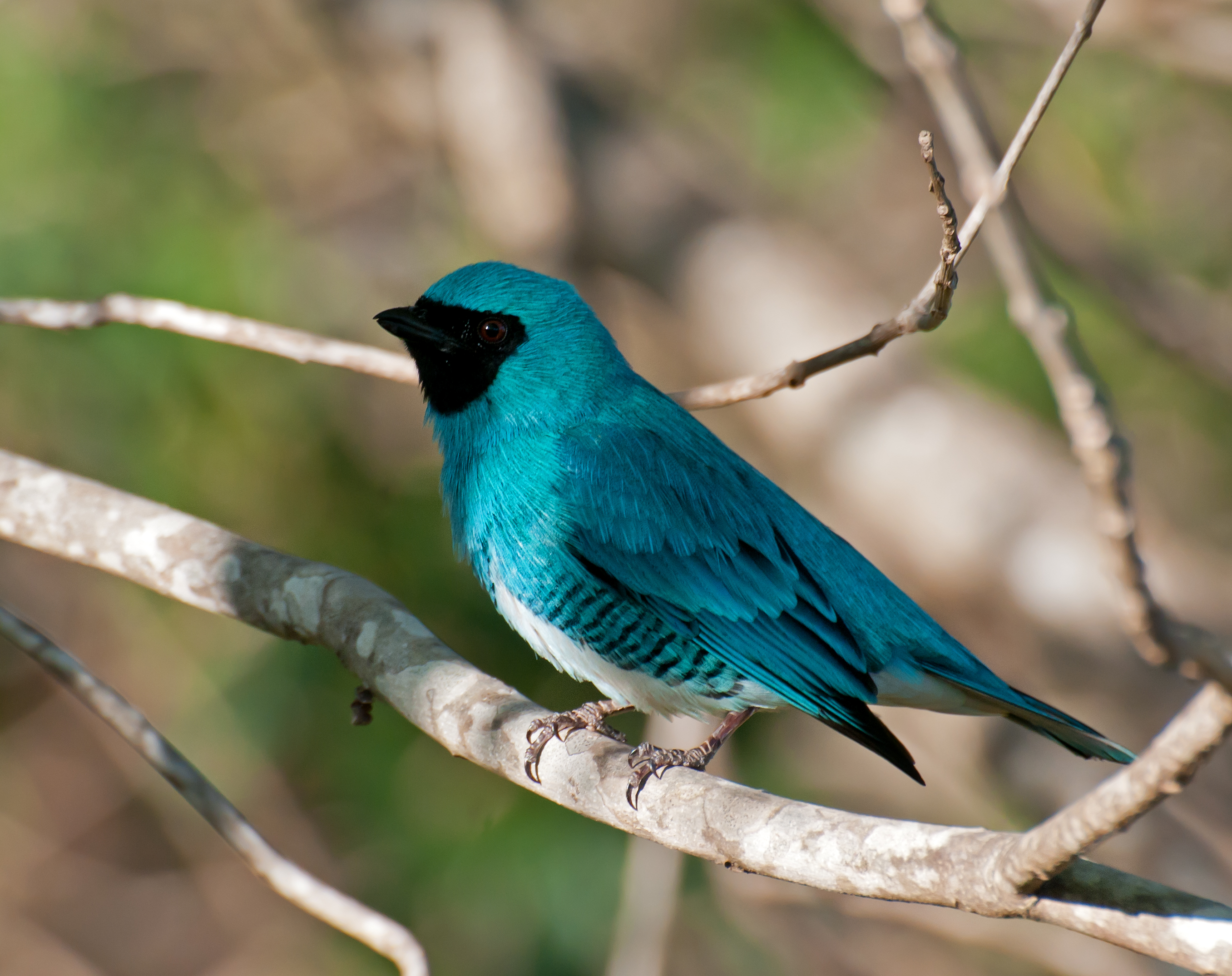 A male Swallow Tanager' in Piraju, São Paulo, Brazil.